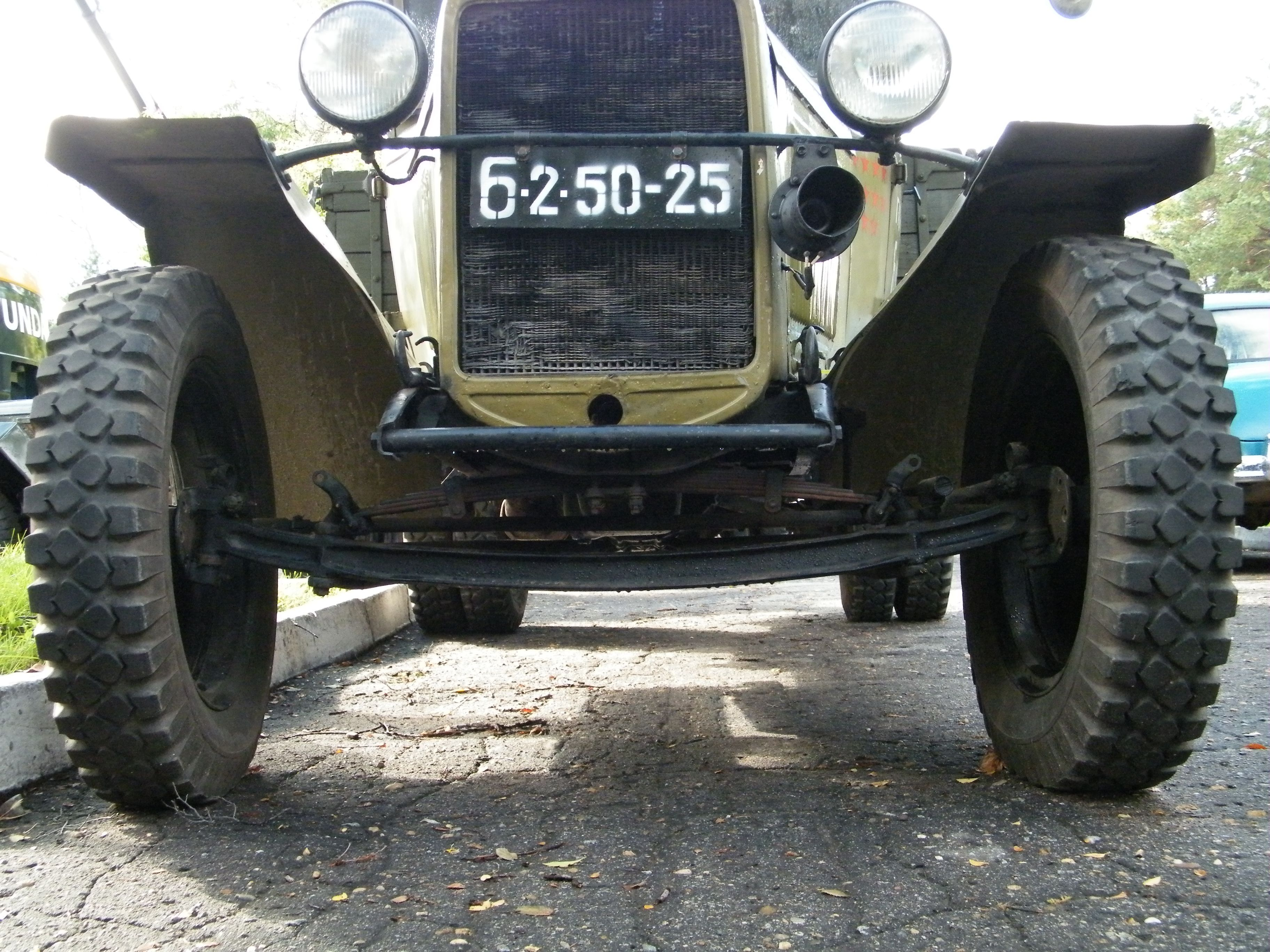 GAZ-MM